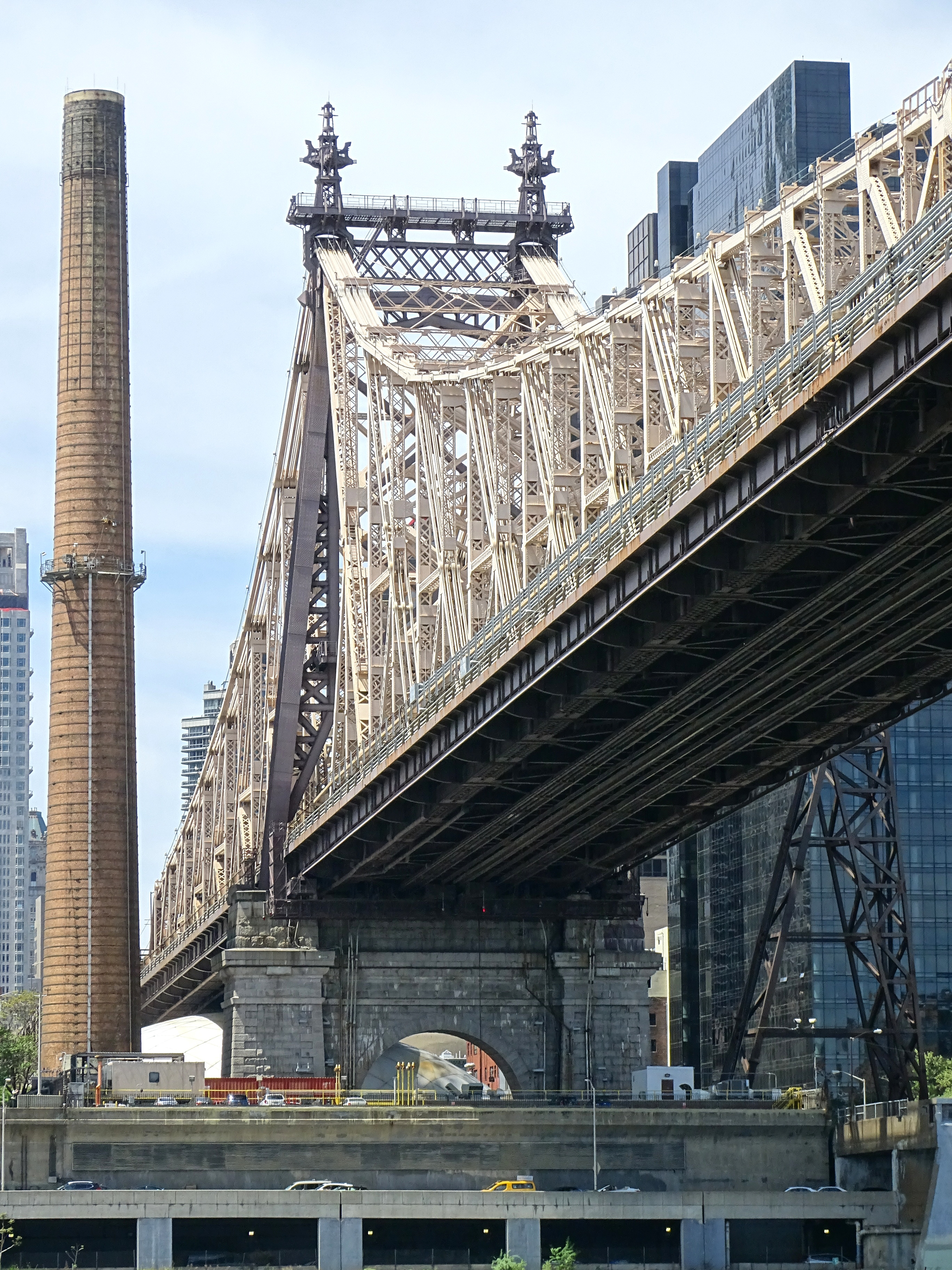 Queensboro Bridge from Roosevelt Island - Manhattan - New York City - USA